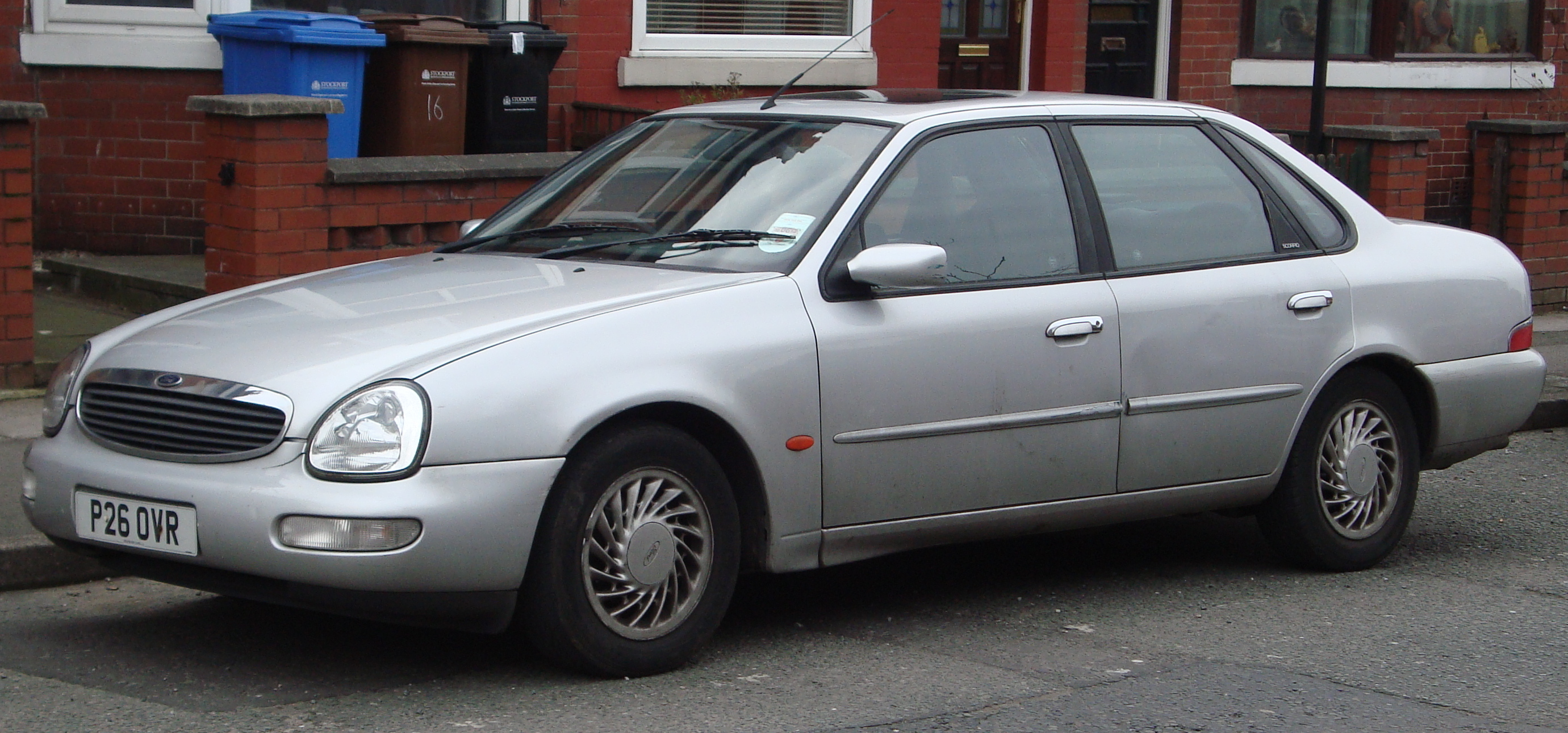 Always liked these despite the bad press they got when they were new